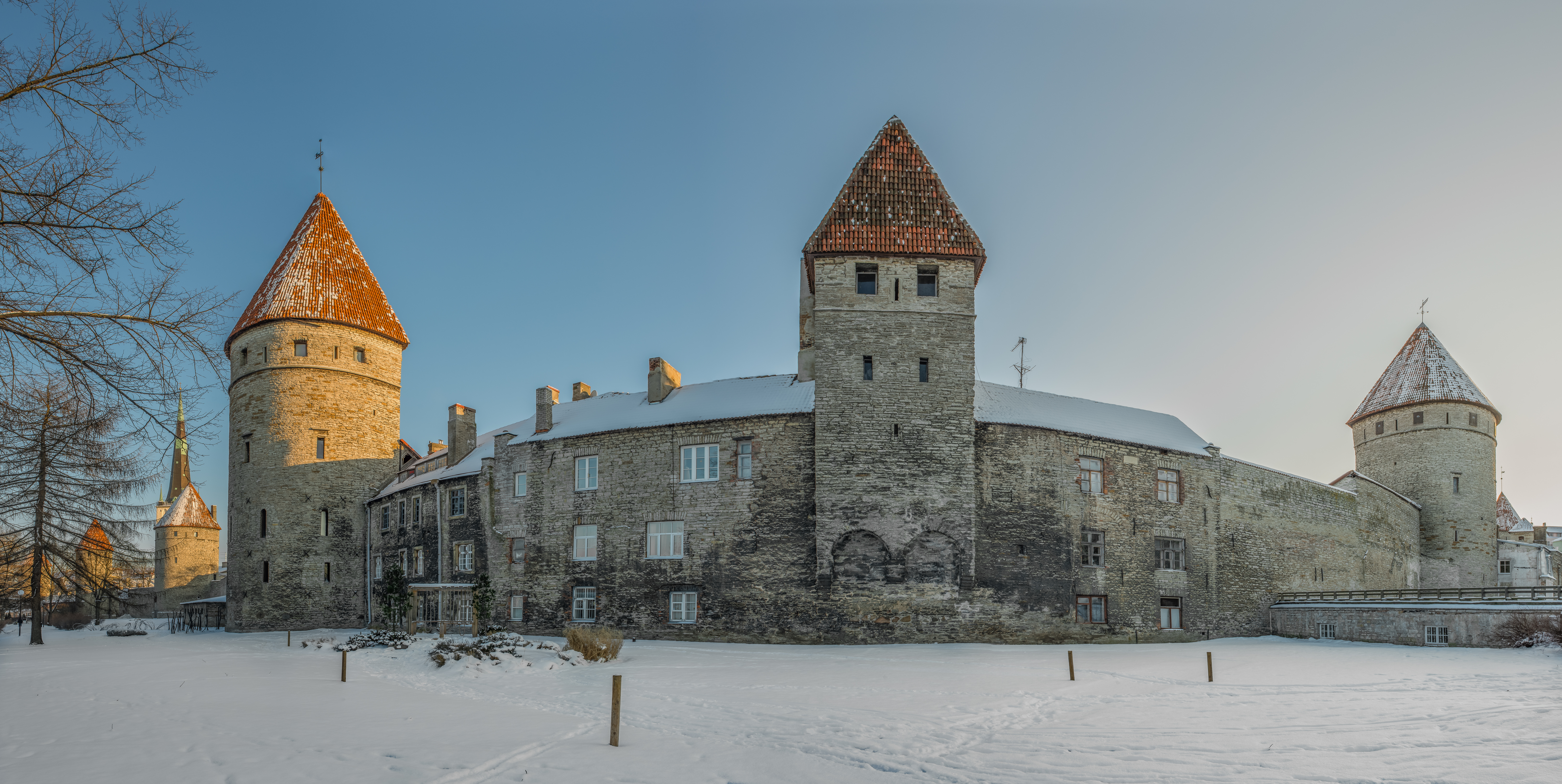 City wall of Tallinn in January 2014